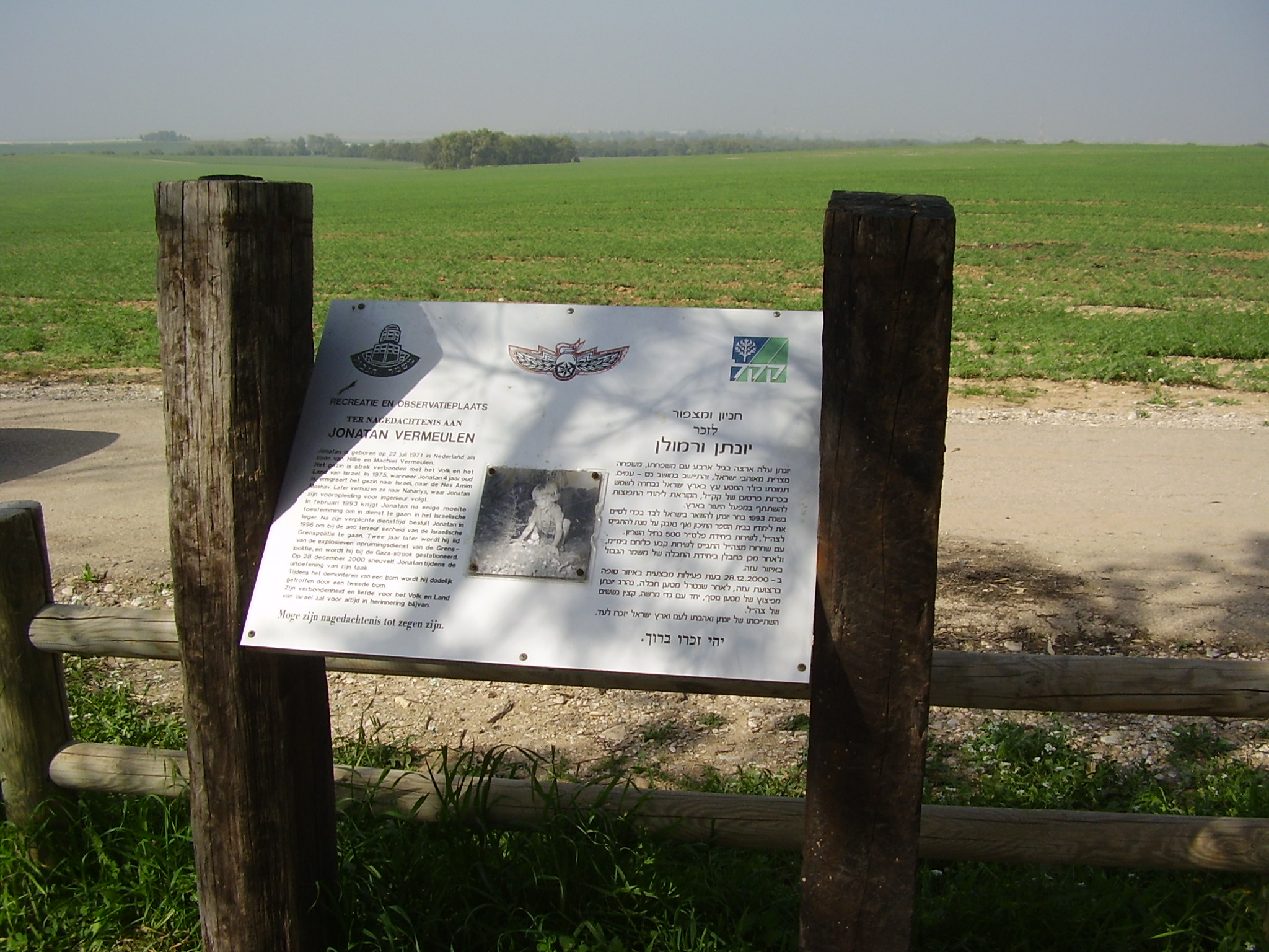 Jonatan Vermeulen observatory near Gaza Strip